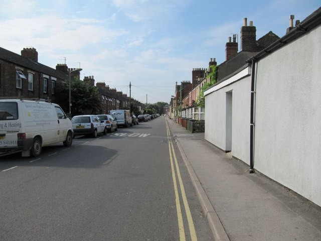 Mill Street This street has not changed, only the cars and probably the residents